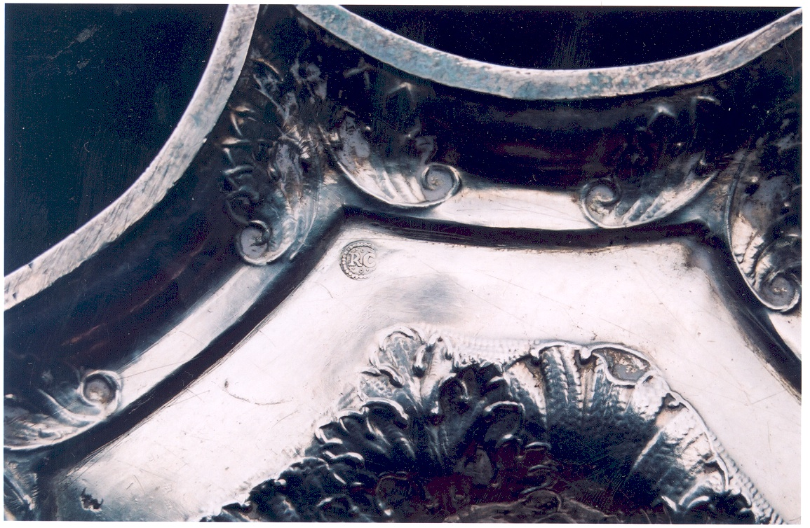 1680 maker's mark on base of a candlestick, for Robert Cooper, London. (The candlestick was made for the 5th Earl of Bath's widow). photo: R. de Salis, February 2006.